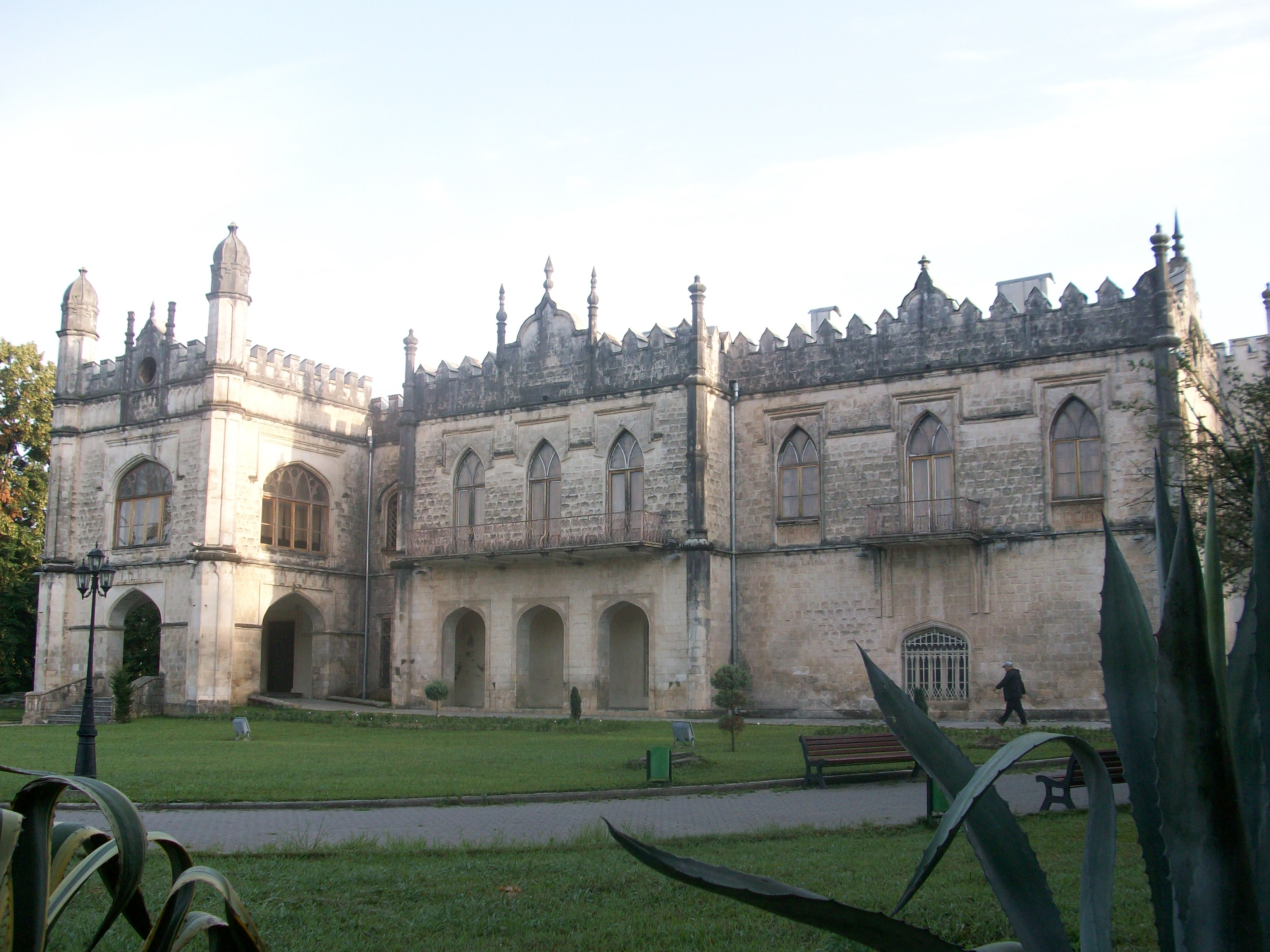 The Dadiani Palace Museum in Zugdidi, Samegrelo Region, Georgia